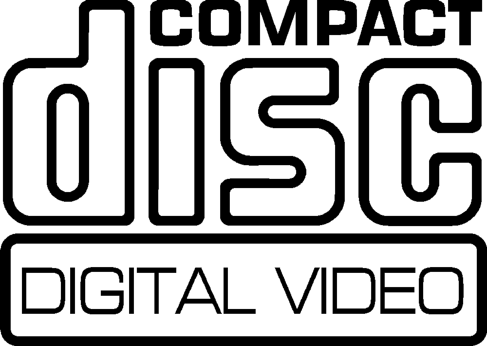 Video CD's logo